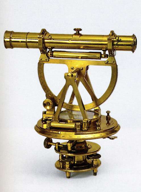 Theodolite. 1840